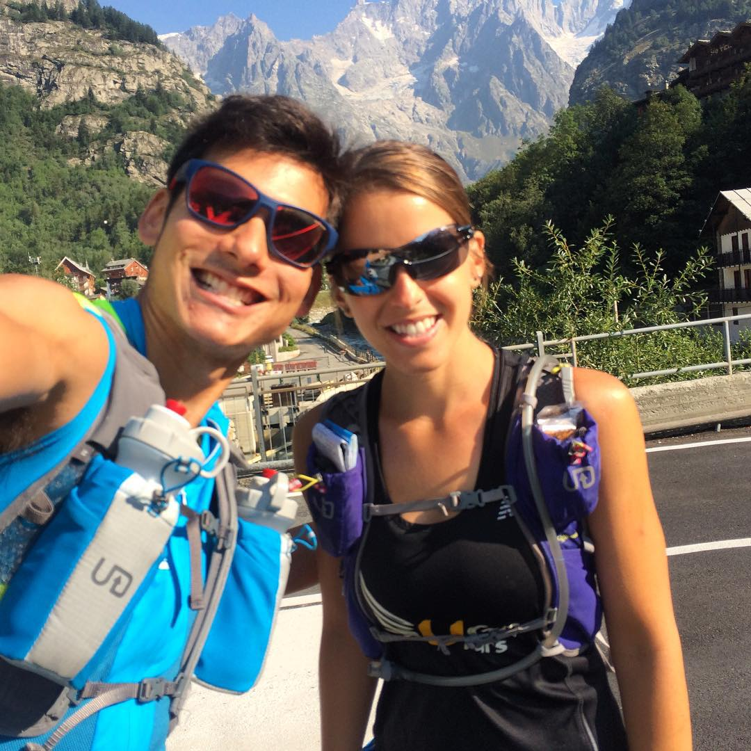 American ultramarathoner Sage Canaday with girlfriend Sandi Nypaver in Courmayeur, Italy in 2015 prior to the Ultra-Trail du Mont-Blanc race.